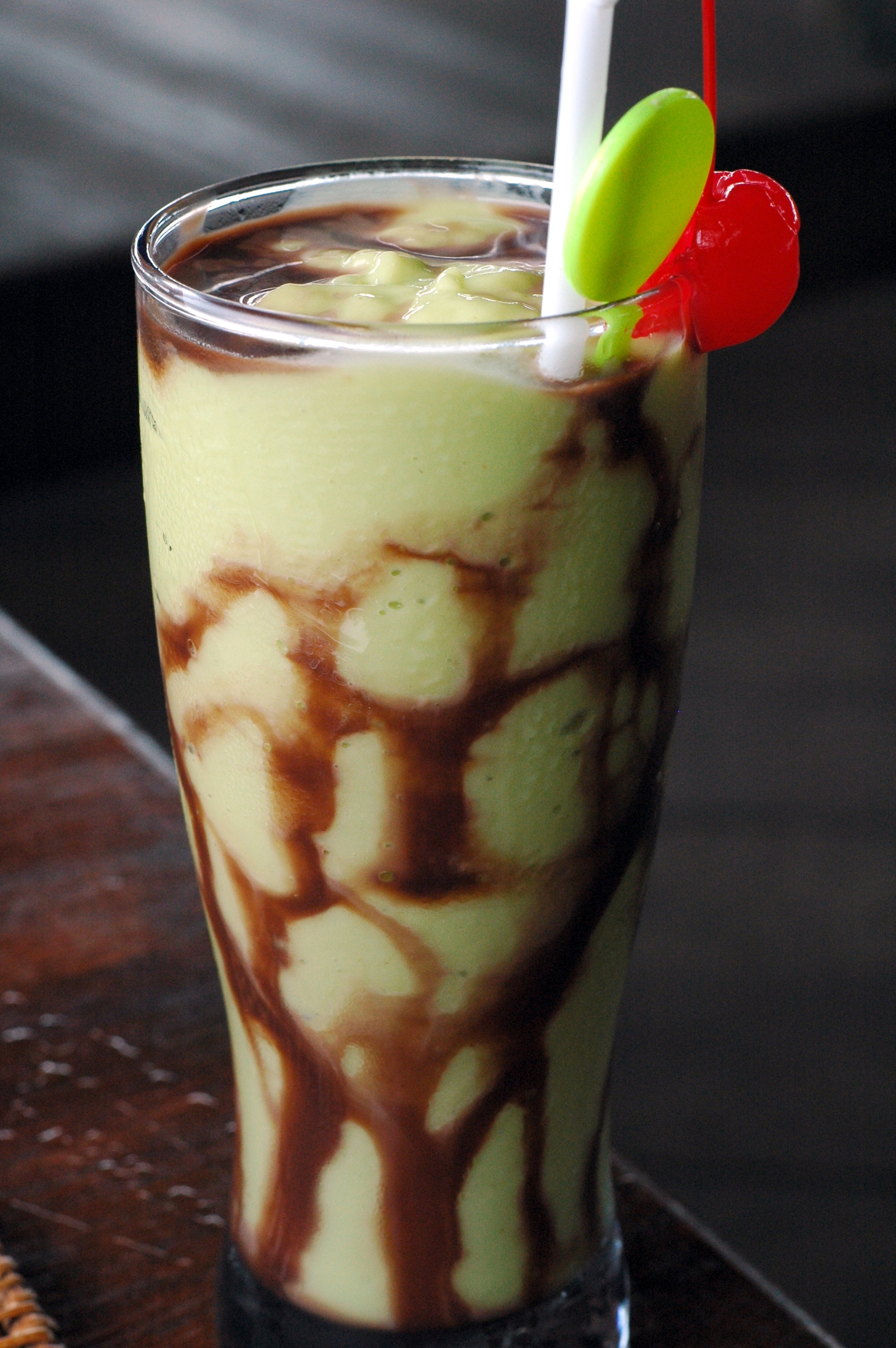 Indonesian-style avocado shake (jus alpokat) with chocolate syrup and condensed milk.